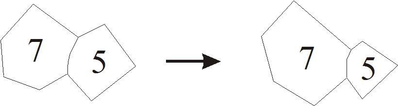 Growth of 2-dimensional foam bubbles